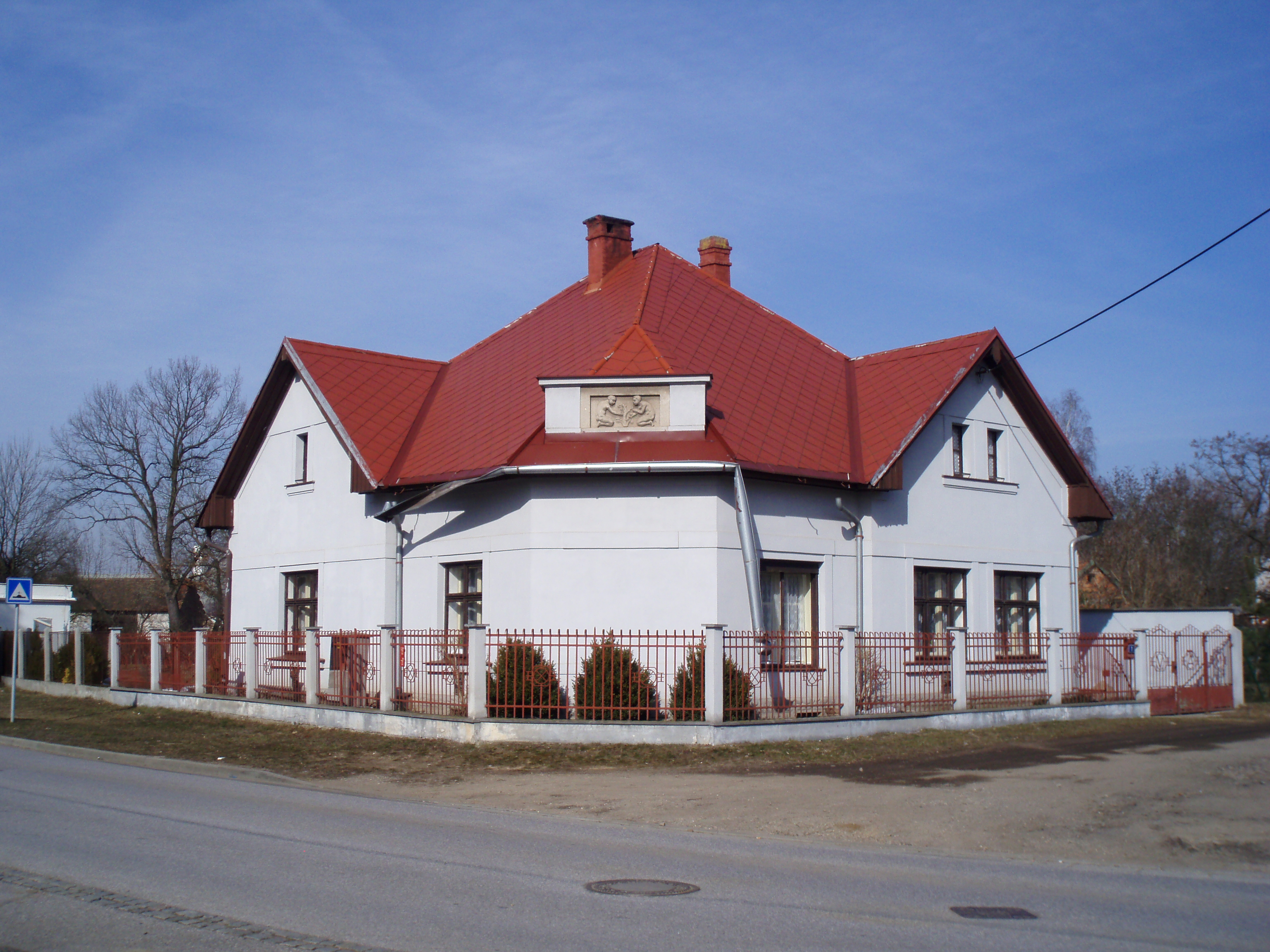 House number 77 in Hradec Králové-Březhrad (Czechia)